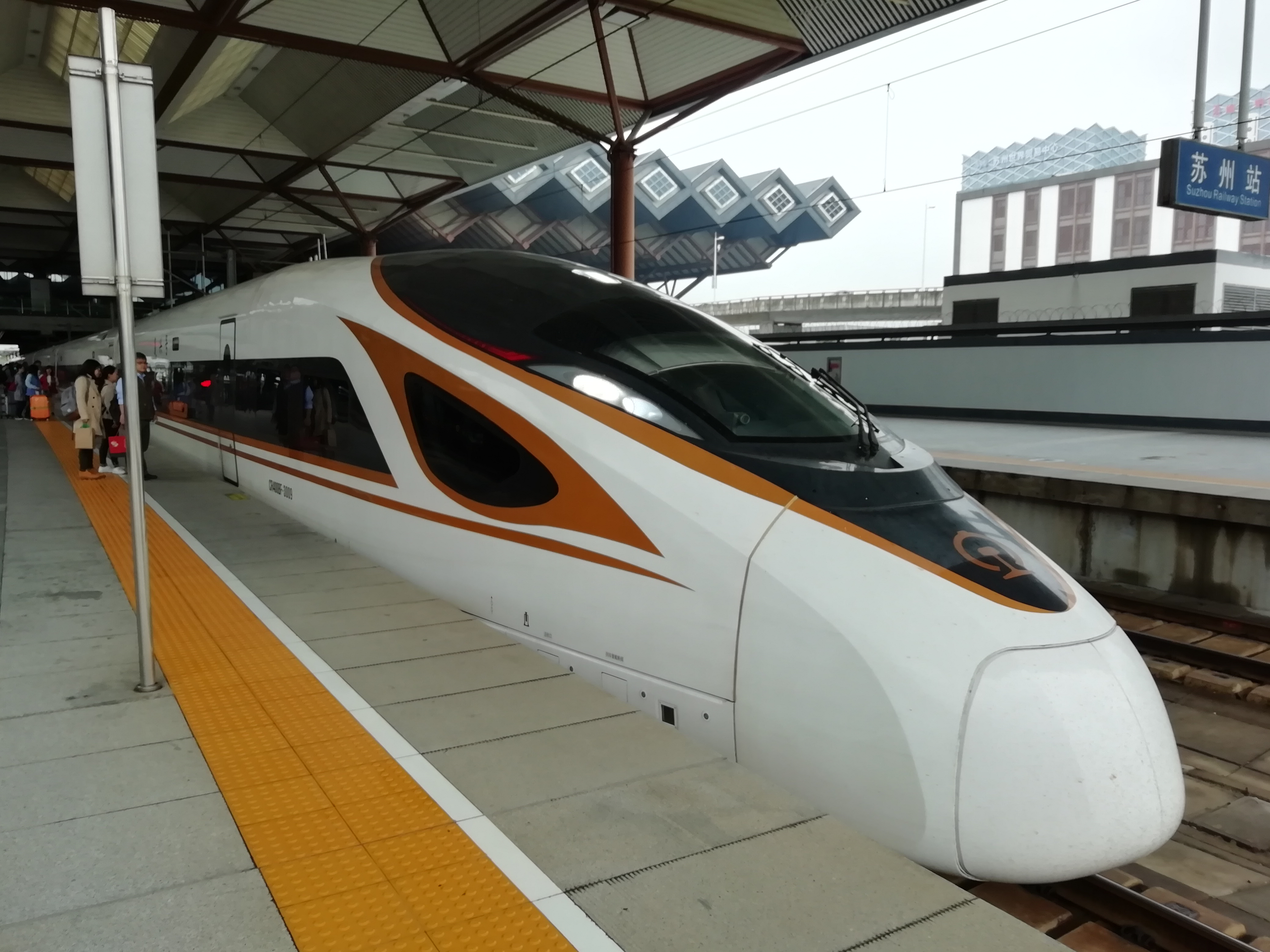 CR400BF-3009, served as G7079 from Anqing to Shanghai, arriving at Suzhou Railway Station. This is the first time to board Fuxing Hao. Wonderful, my country! 中文（中国大陆）: CR400BF-3009担当的G7079次列车（安庆-上海）停靠在苏州火车站。这是我第一次搭乘复兴号出行。厉害了我的国！